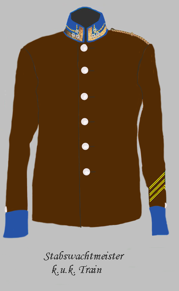 Tunic of an 1st Sergeant of the Austria-Hungarian Supply troops. (More than 9 years in service) Rank insignias as worn between 1913 and 1914 only